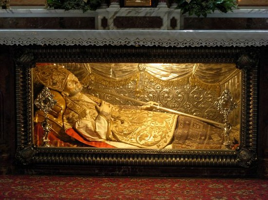 Relics of Saint Alphonsus Liguori, at Pagani basilica